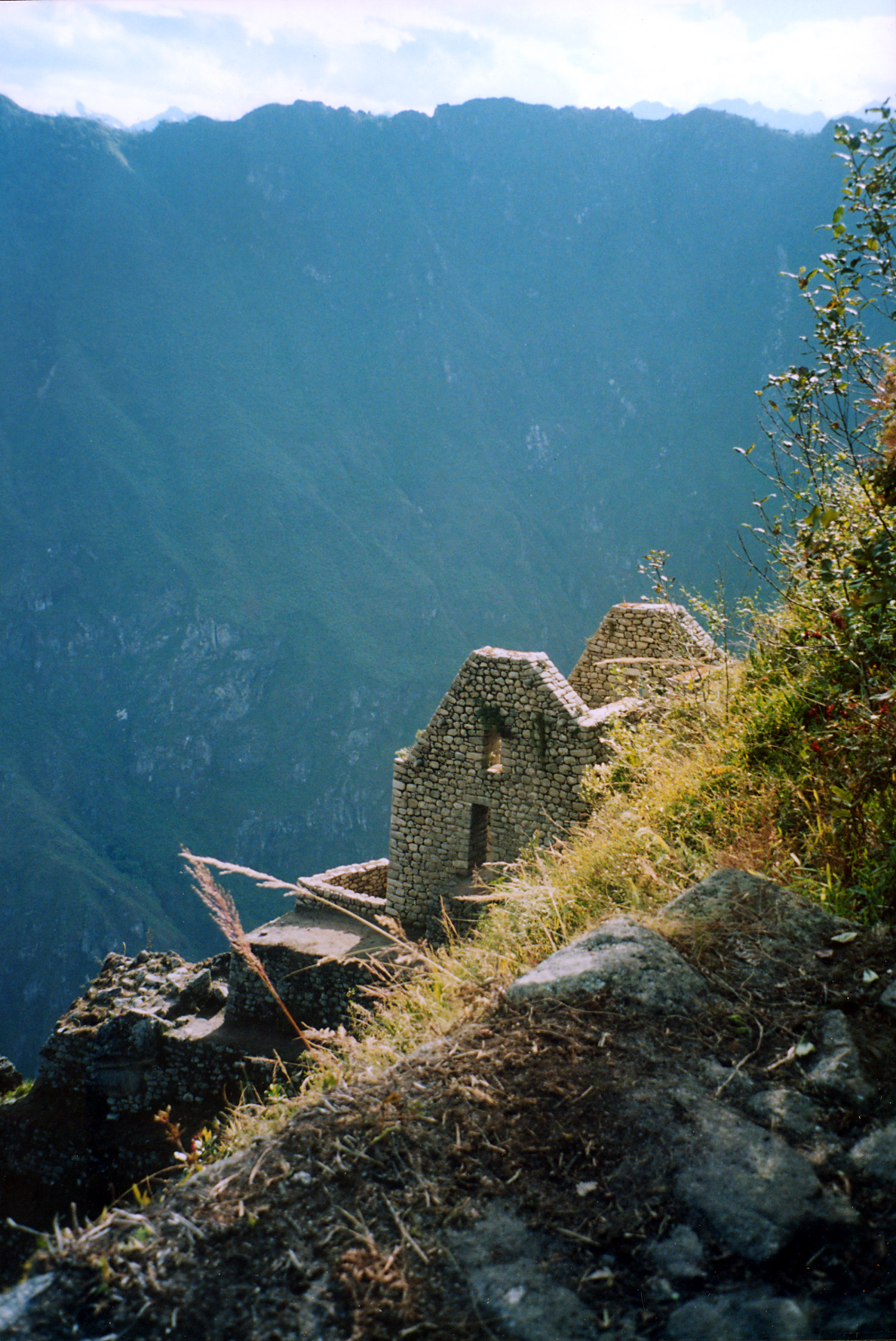 Building at top of Huayna Picchu, Machu Picchu, Peru.